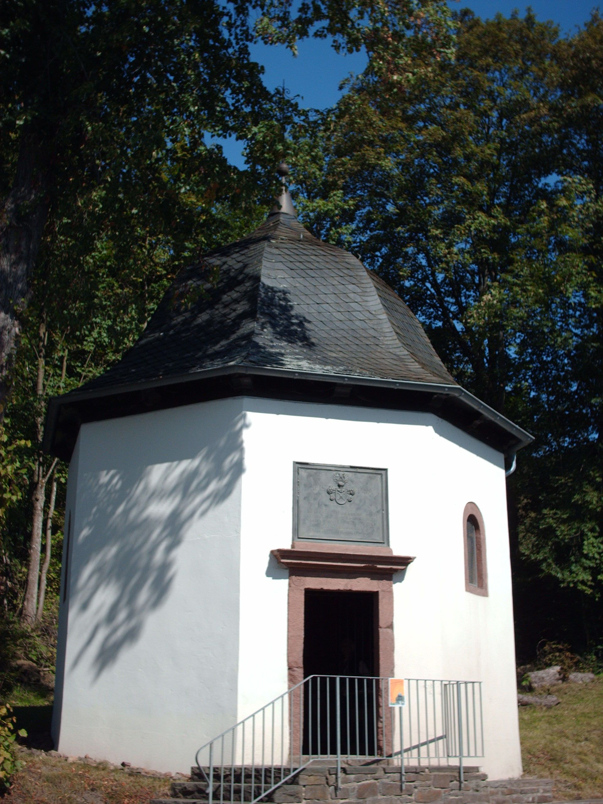 Vasbach chapel, Kirchhundem, Germany check usage